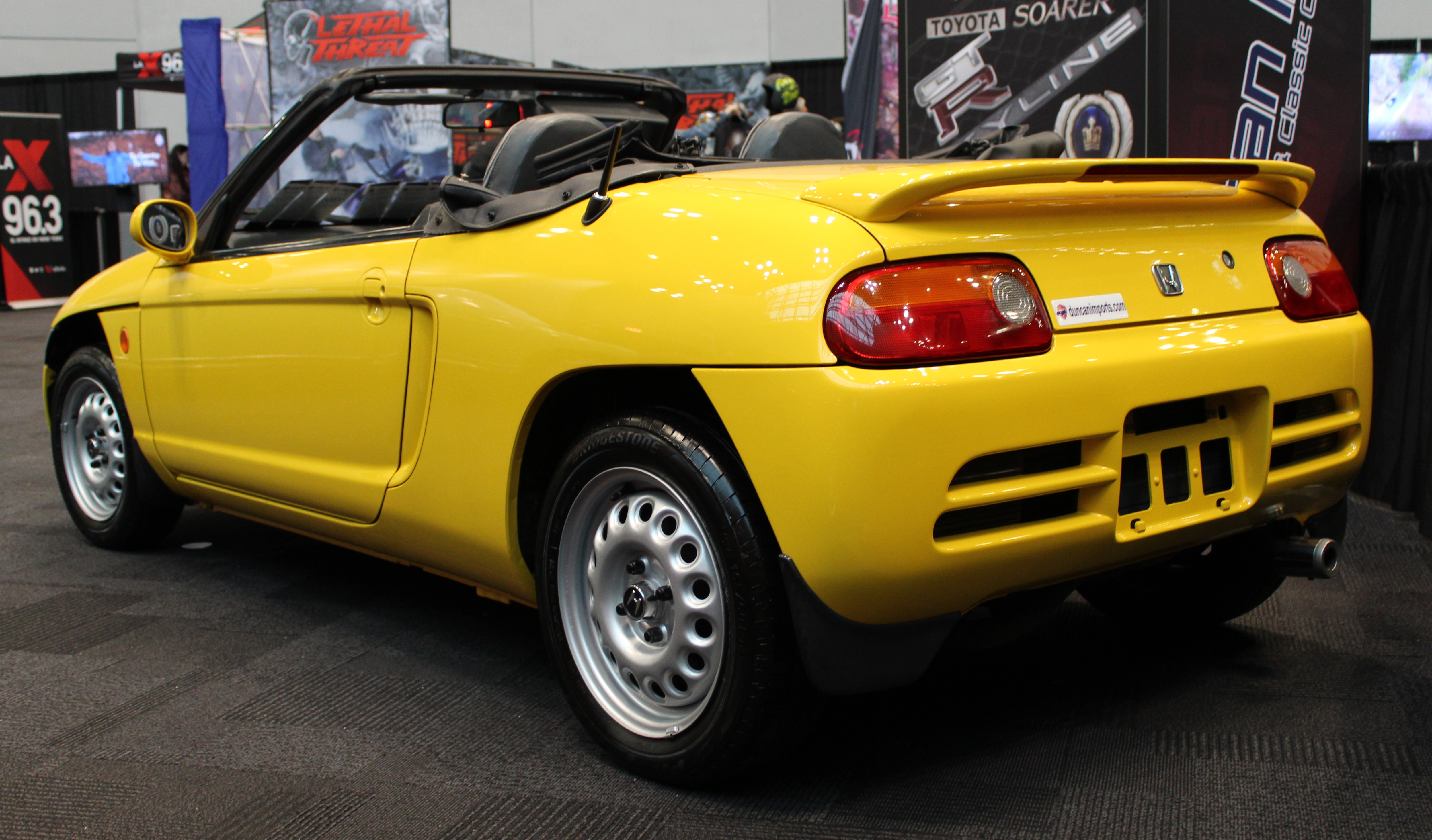 A 1993 Honda Beat convertible photographed during the 2019 New York International Auto Show, in Hudson Yards, Manhattan, NYC. Imported by Duncan Imports, 33,000- miles